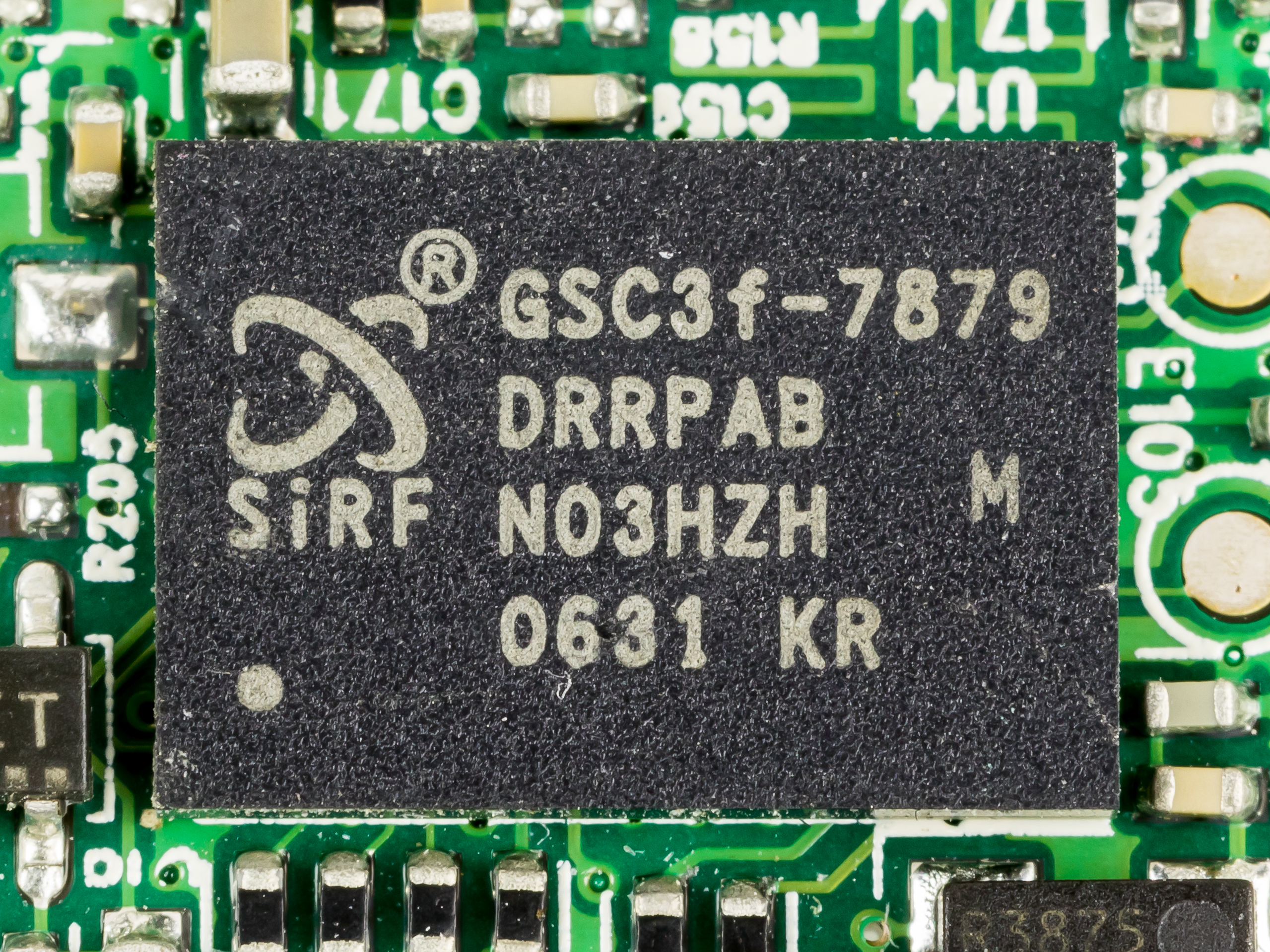 Navman F20 - SiRF GSC3f-7879 (GSC3f/LPx) - High Performance, Lowest Power, GPS Single Chip/SiRFstarIII. Package: BGA